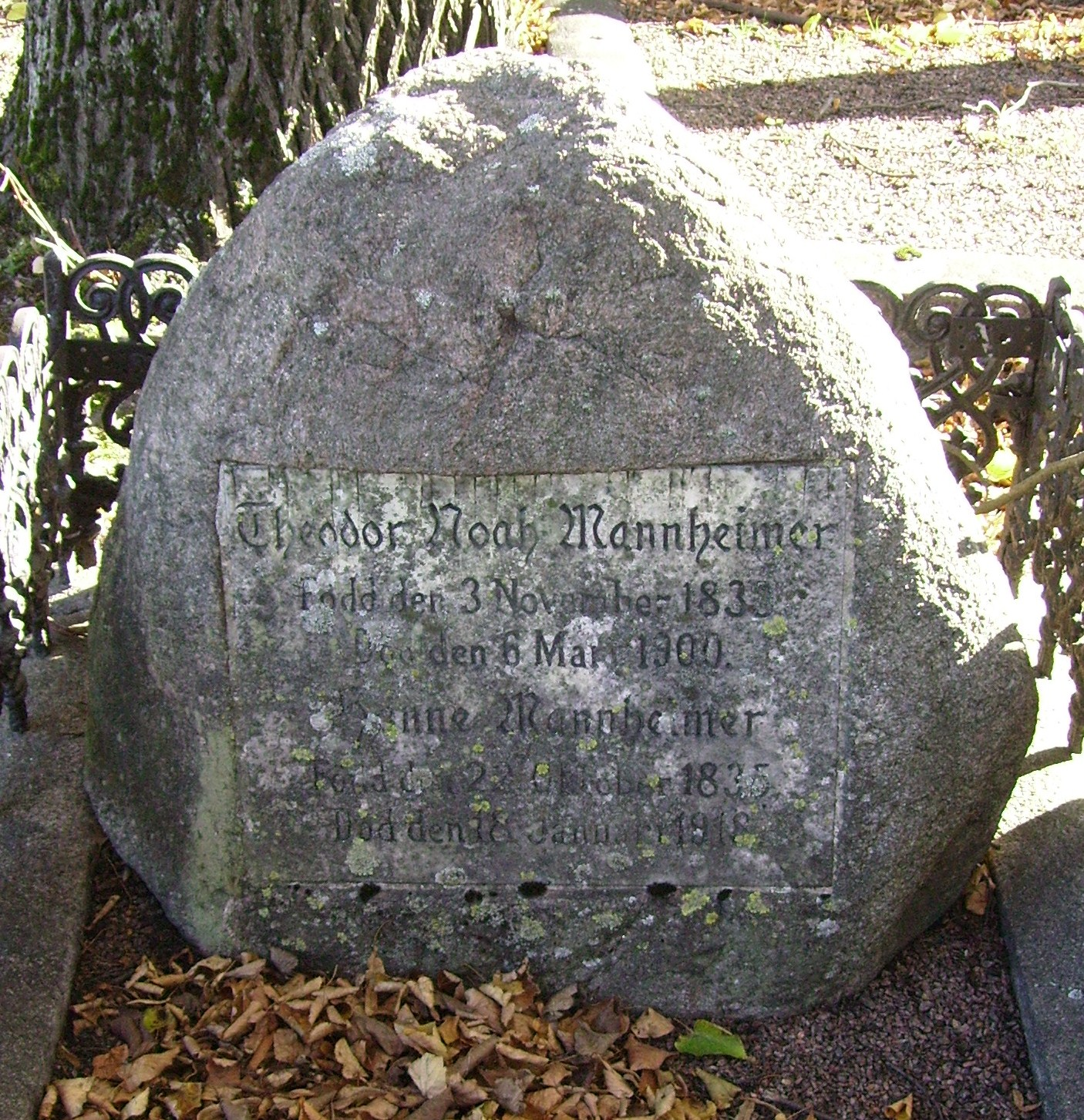 Picture of Theodor Mannheimer's grave at the Jewish cemetary in Göteborg